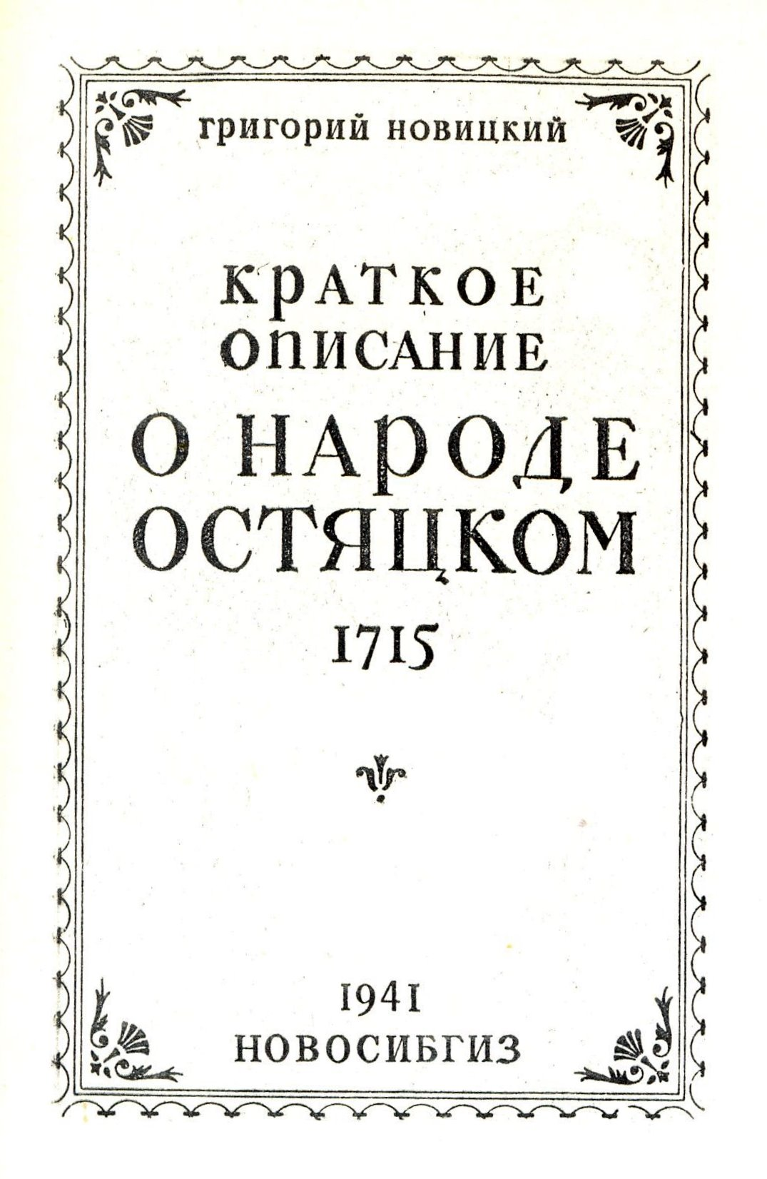 Novickij' volume Novosibirsk, 1941